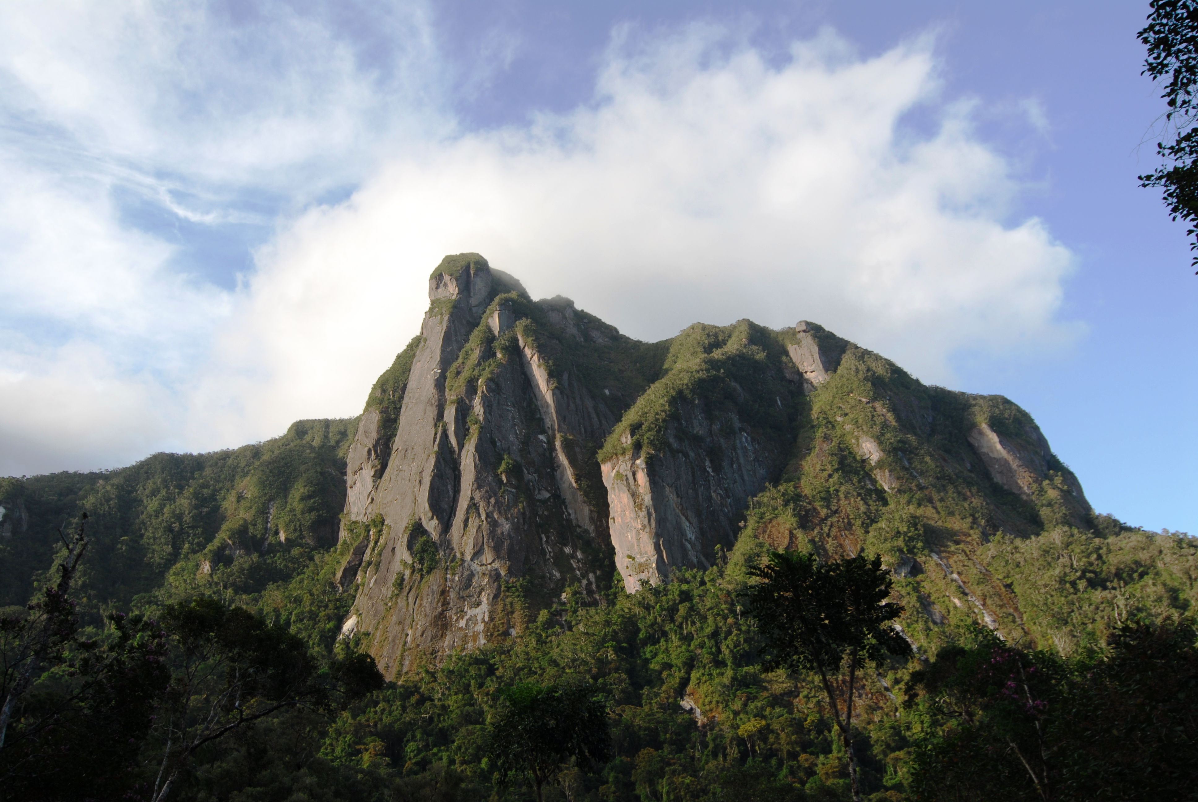 Ambatotsondrona (Leaning Rock) - Marojejy National Park